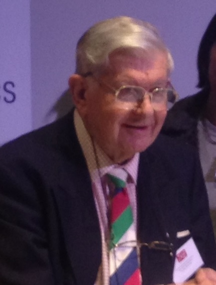 The Very Reverend Edward Shotter receiving his Beecher Award on the 9th of Dec. 2016, following the 2016 Lewis Headley Public Lecture, at the Royal Society of Medicine, London